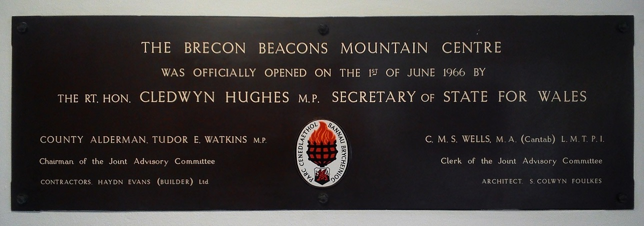 Memorial tablet at the Brecon Beacons Mountain Centre (the National Park Visitor Centre managed by the Brecon Beacons National Park Authority) near Libanus, Powys, Wales